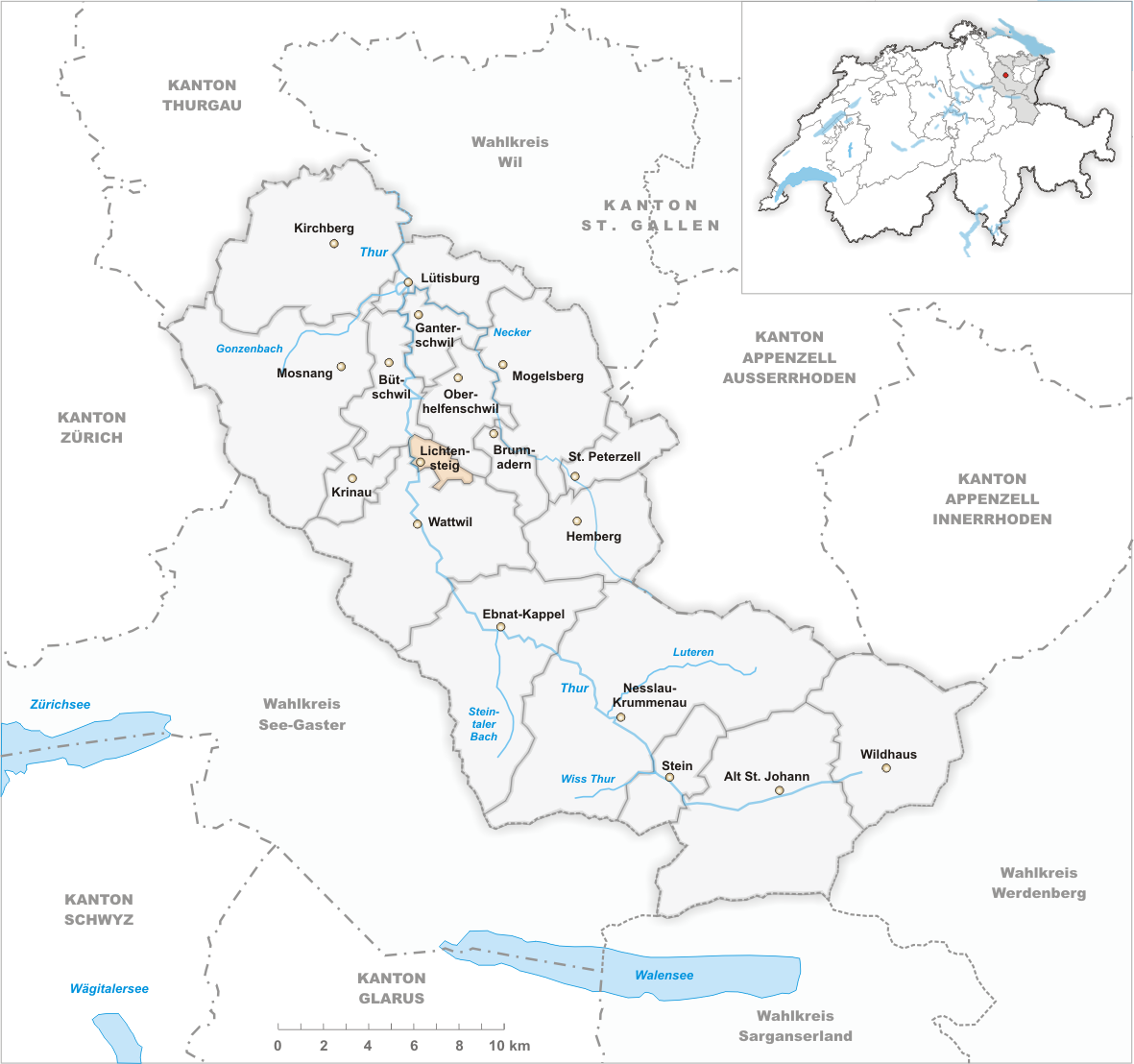 Municipality Lichtensteig